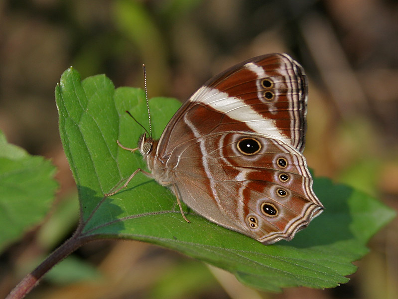 Bamboo Treebrown Lethe europa at Samsing in Darjeeling district of West Bengal, India.